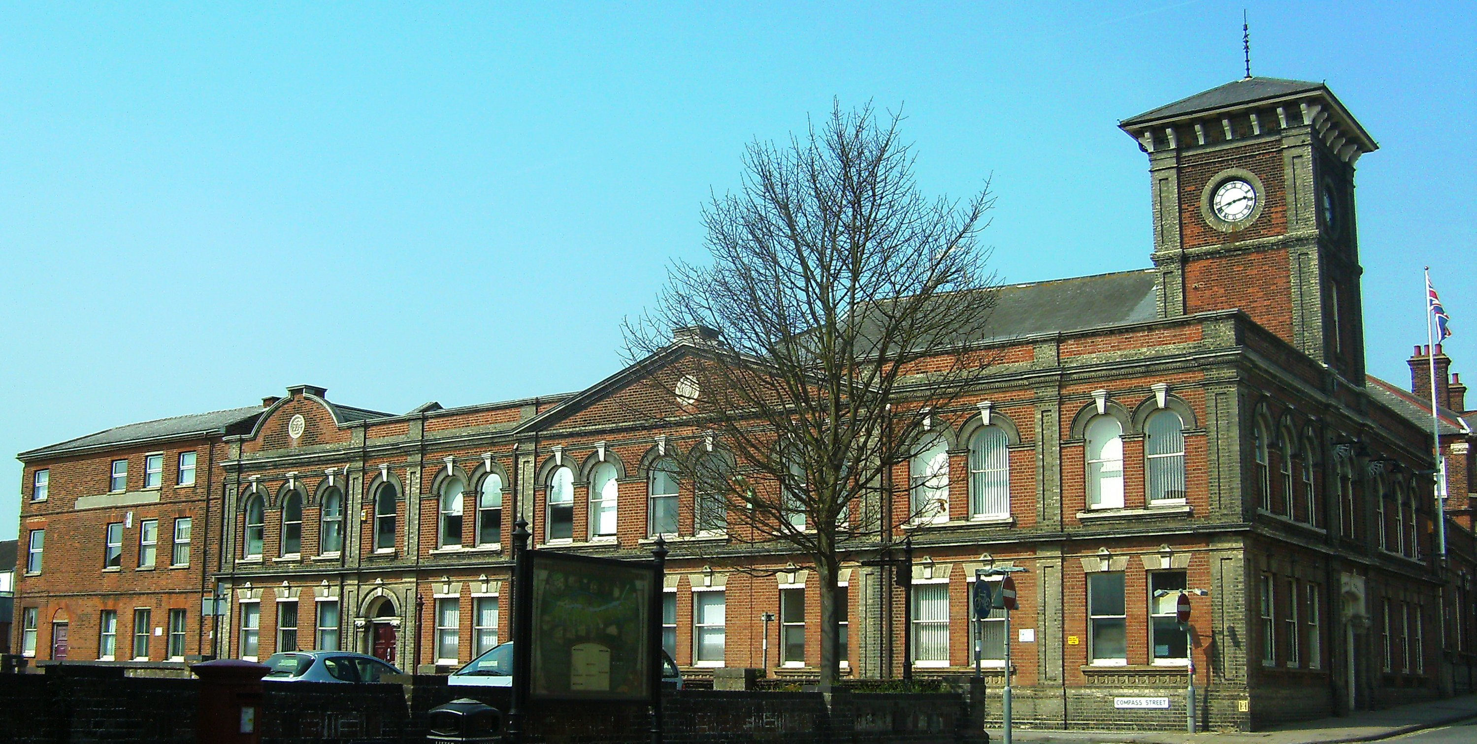 Town Hall at Historic High Street shopping centre in Lowestoft